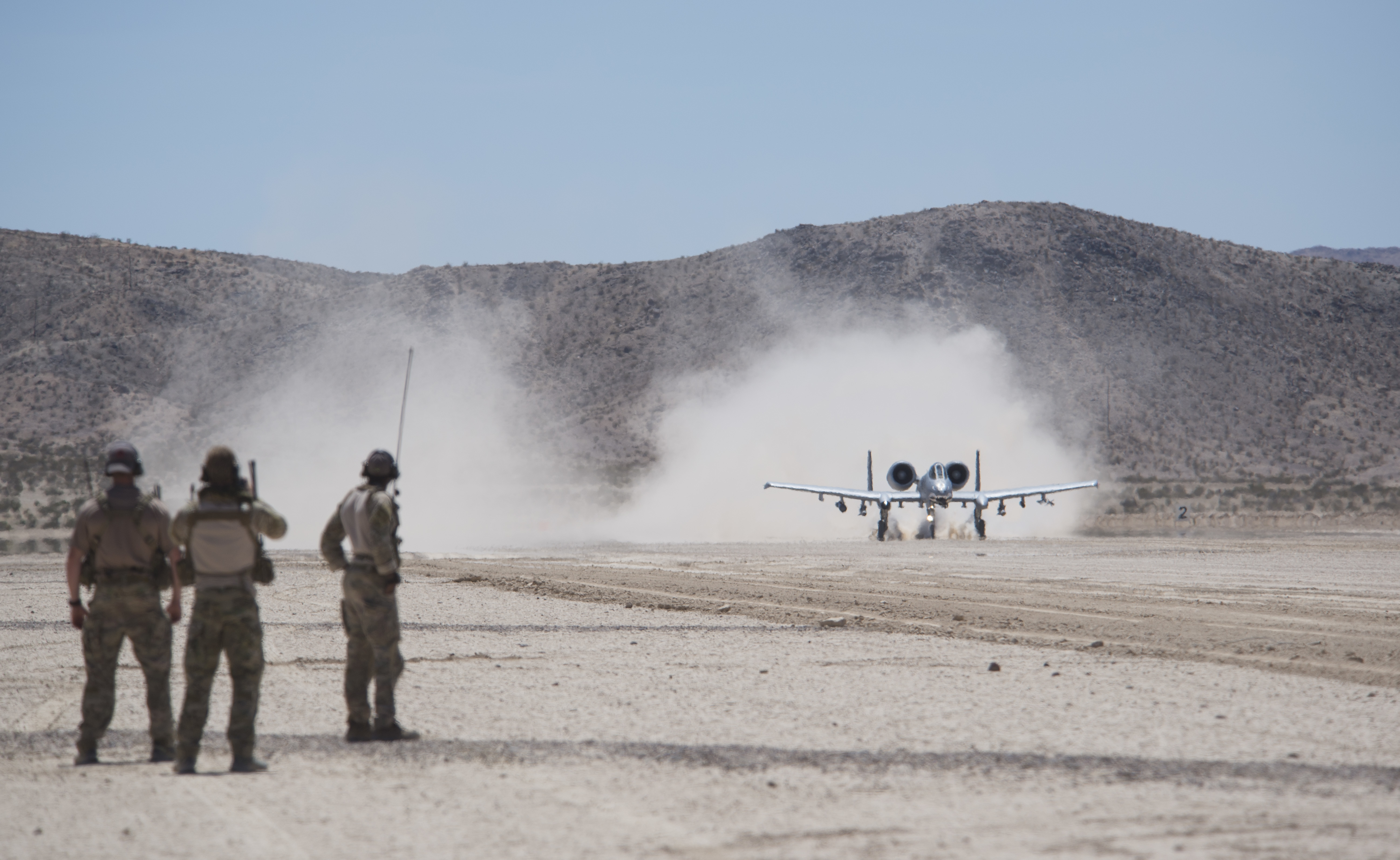 Airmen assigned to the 22nd Special Tactics Squadron, Joint Base Lewis-McChord, Wash., look on as an A-10 Thunderbolt II departs from the National Training Center at Fort Irwin, Calif., July 16, 2015. An austere field landing allows for the A-10 pilots to push in, refuel, and provide support in a heavily-contested environment. Unit: 99th Air Base Wing Public Affairs